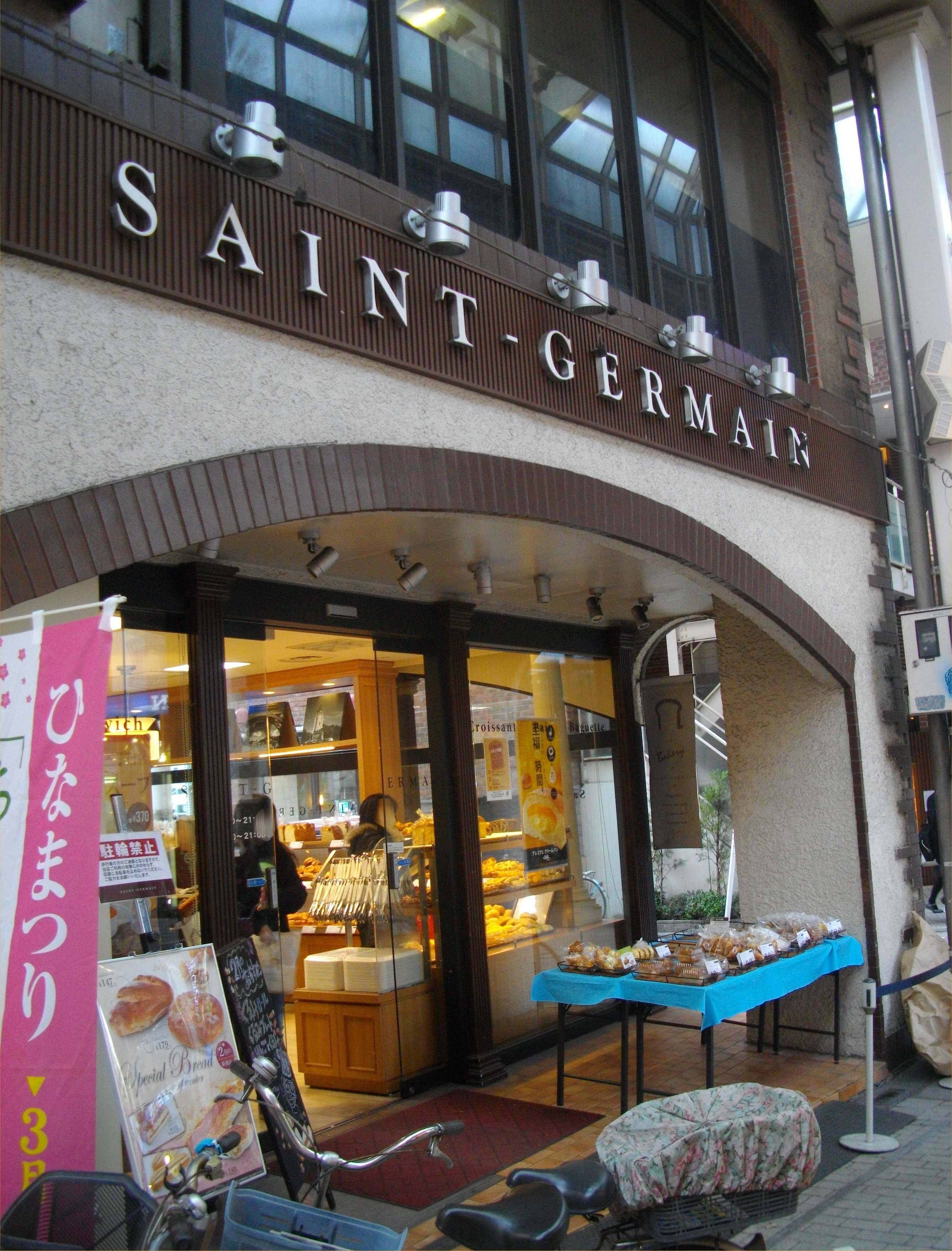 A photo of SAINT GERMAIN(A bakery in Tokyo.) Asagaya branch shop,Asagayaminami,Suginami-ku,Tokyo,Japan.